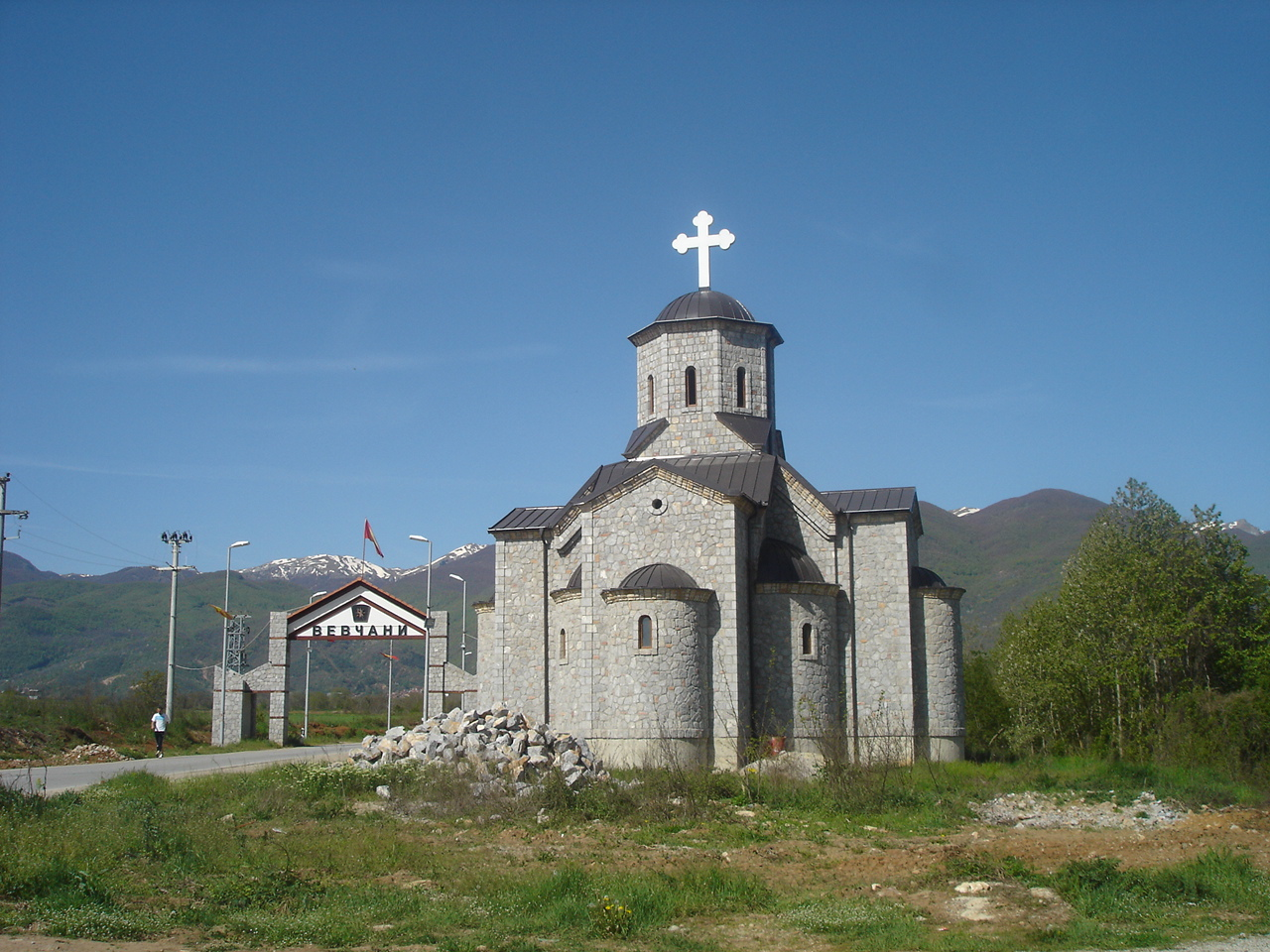 The church of St. George on the entrance of Vevchani, Macedonia